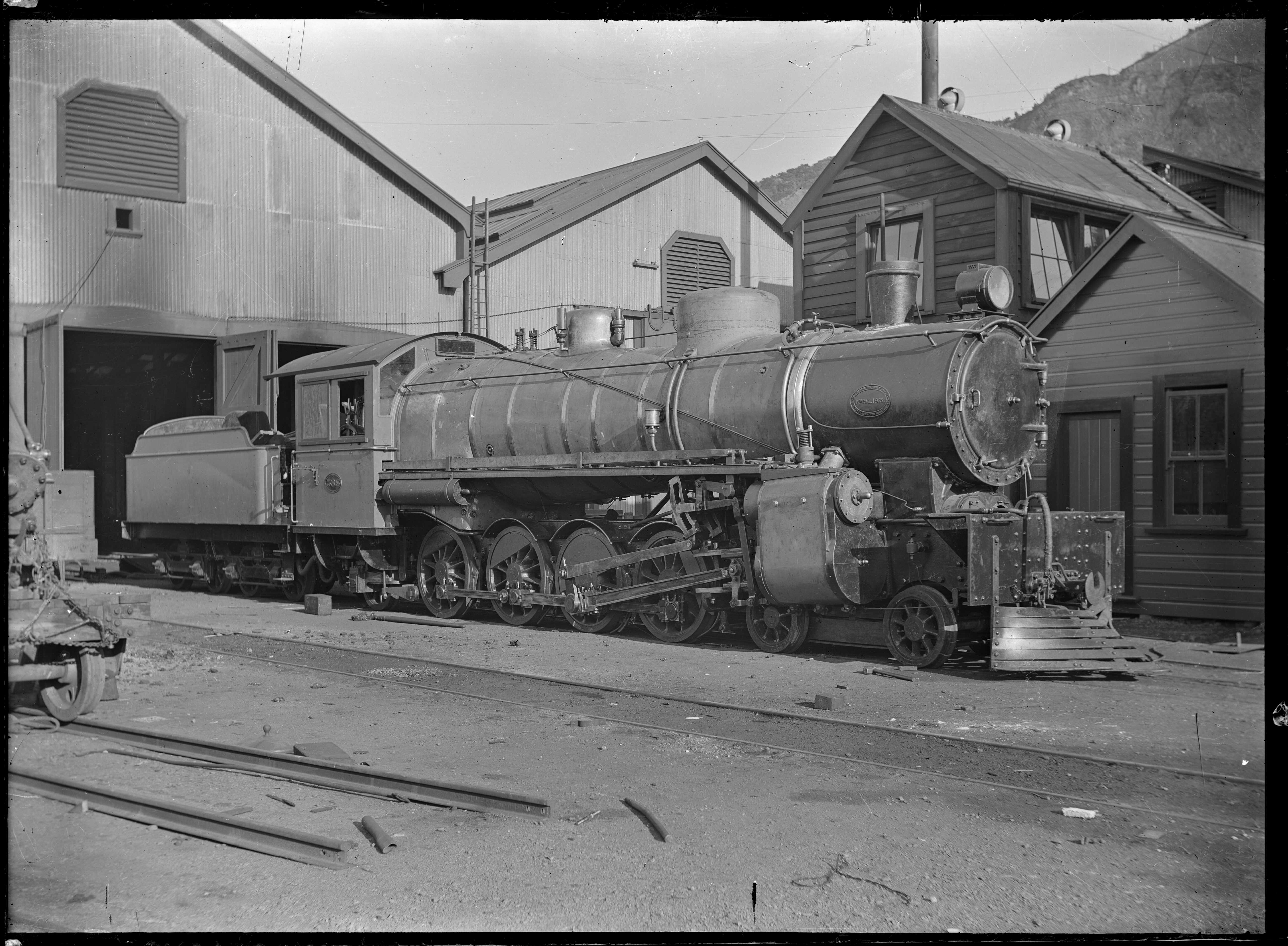 "X" 588, an X class steam locomotive, photographed leaving a Petone workshop shed by Albert Percy Godber, ca 1913. William Albert Godber (son of photographer) is standing on the engine.